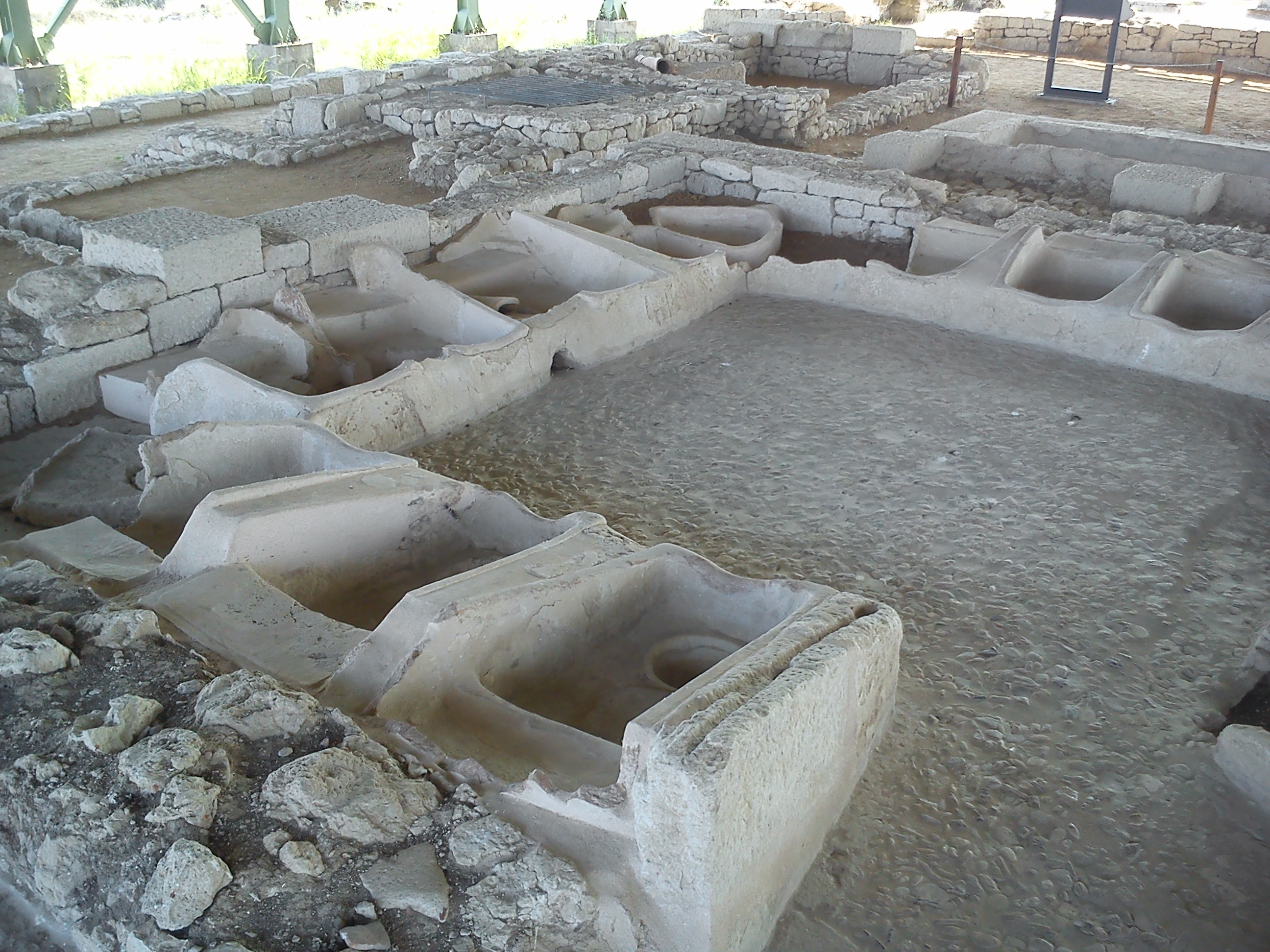 Helennistic public bathtubs in Pella